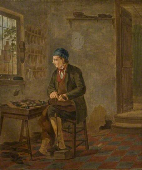 Painting named "The Shoemaker", on display at Northampton Museum and Gallery.